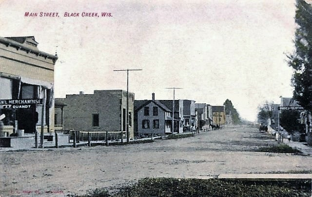 Looking South along Main Street in Downtown Black Creek, WI